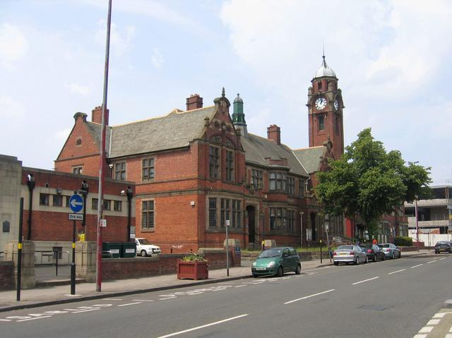 Sparkhill Public Library. Sparkhill Library is actually on the upper floor of this building. It was built in 1900 as the Council House for Yardley District Council and the clock tower stands out as a local landmark. For more details